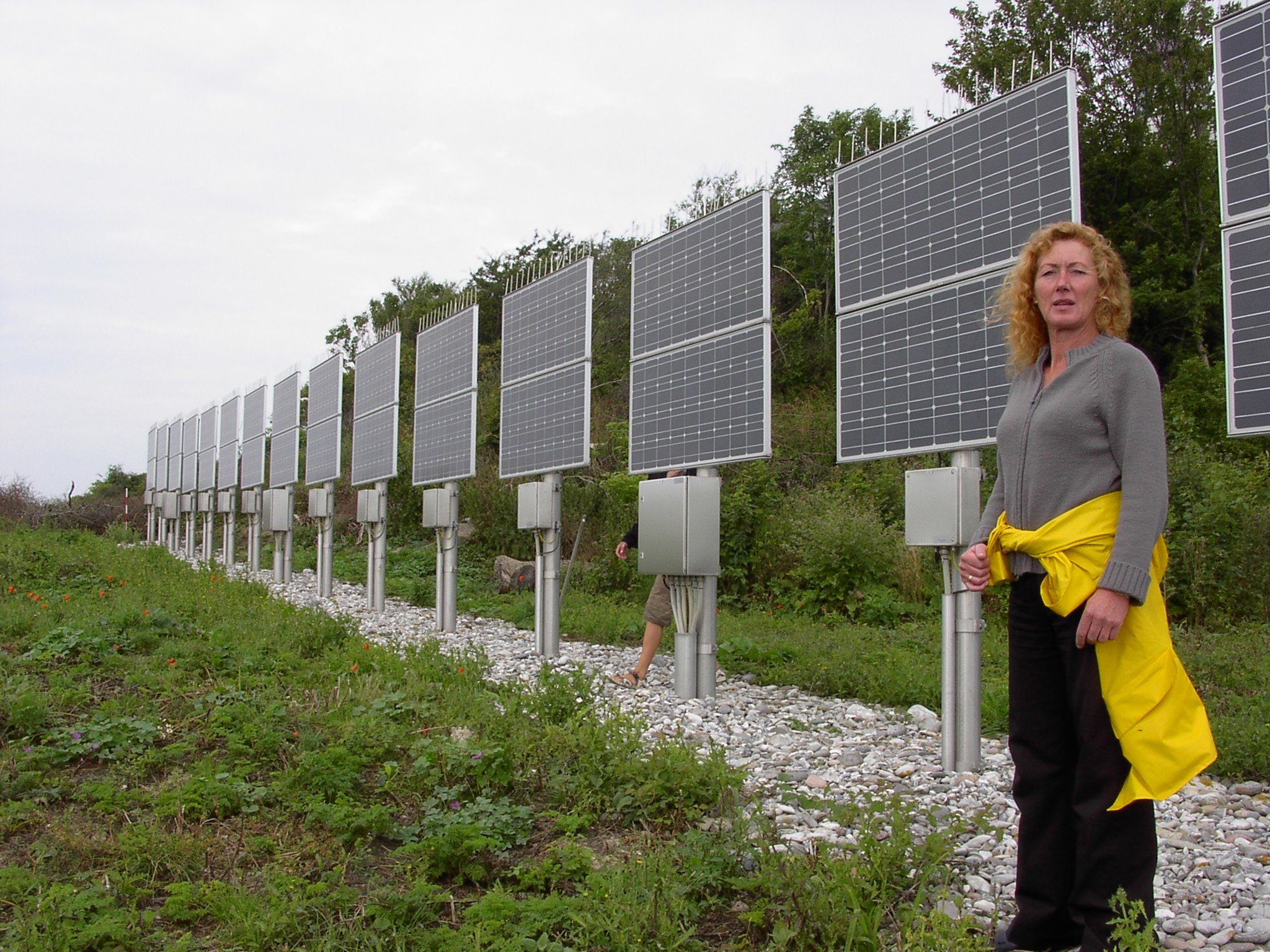 Solar Panels on Hjelm Island.